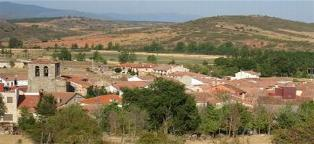 Hortigüela